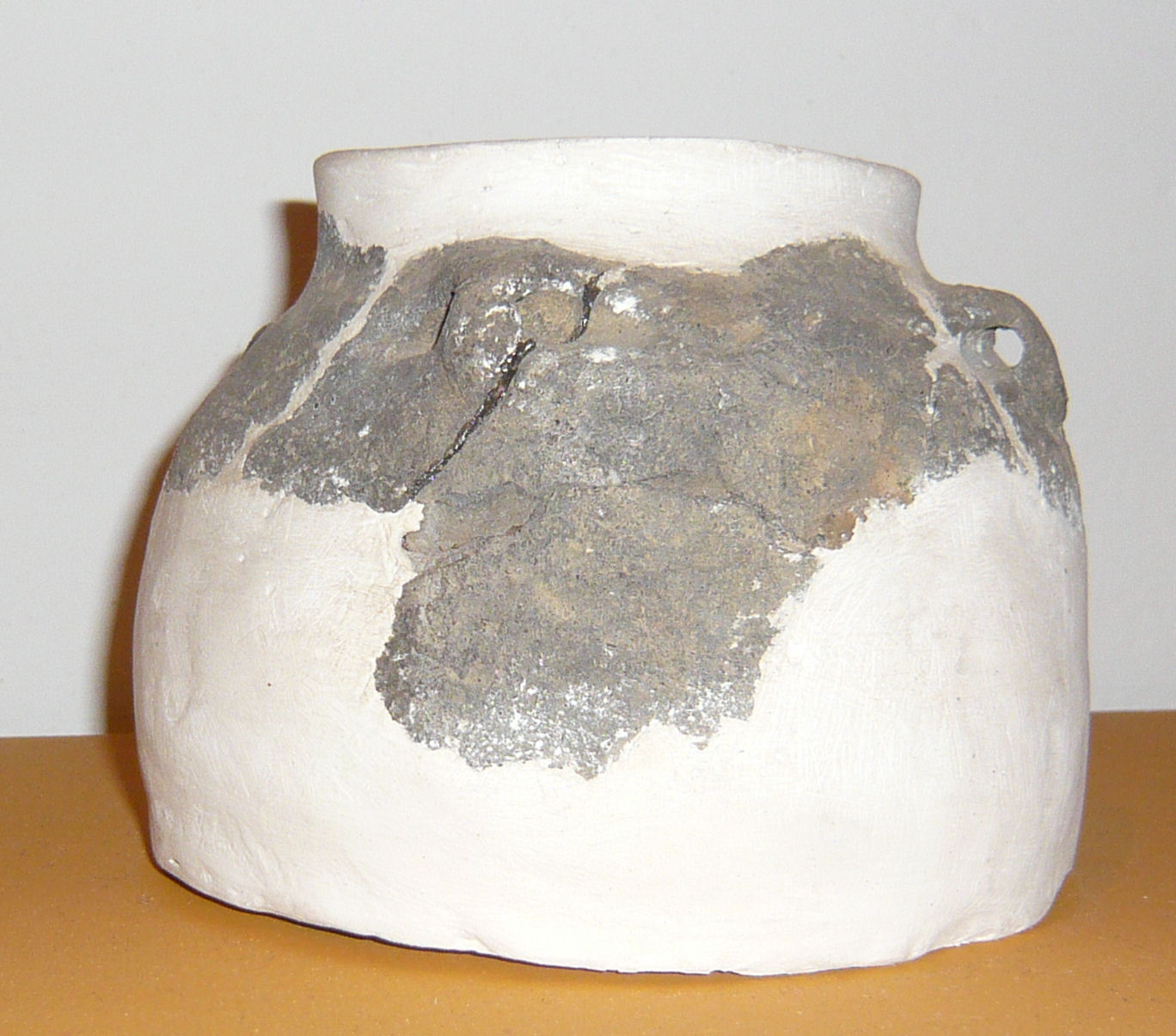 Corded Ware culture Krasnystaw Polnad